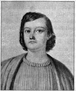 Frédérick Lemaître